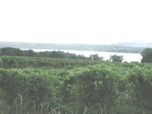 Vineyard with Keuka Lake in background Image taken by me, released under GFDL Pollinator 03:07, 24 Jan 2004 (UTC)